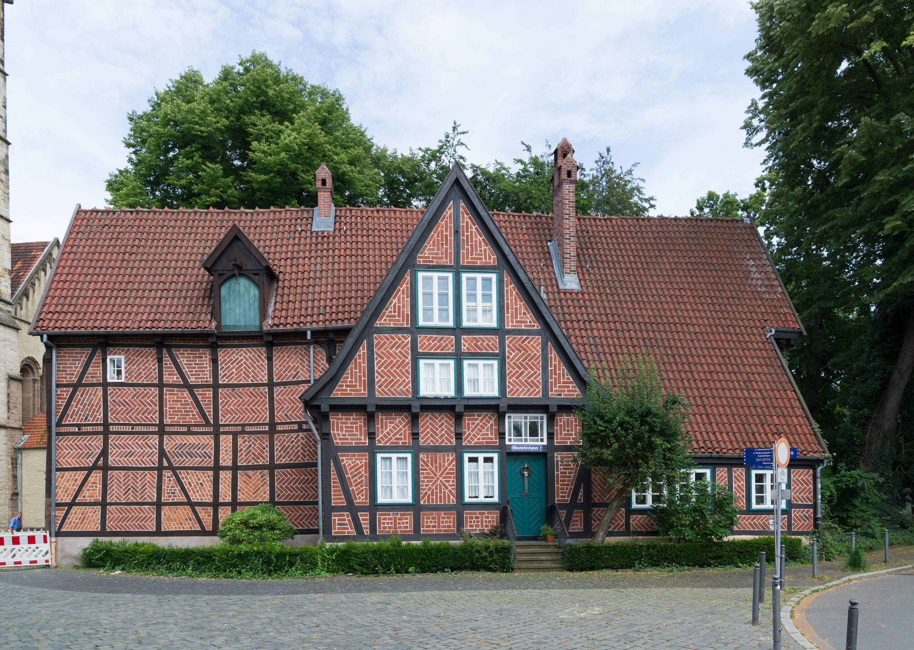 Kantorhaus, Herford, North Rhine-Westphalia. Half timbered house with brick nogging built in 1484-94.